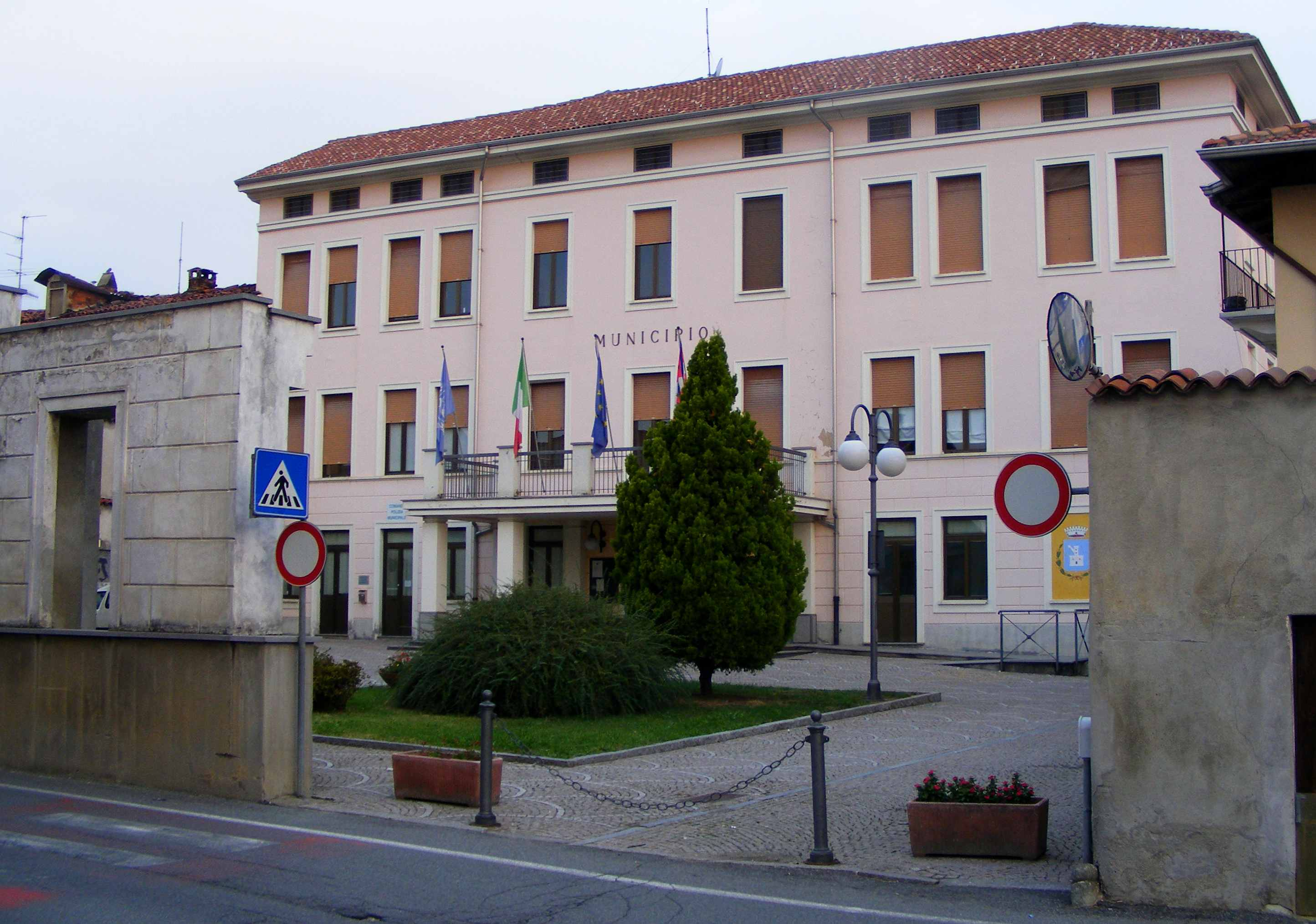 Ponderano (BI, Italy): town hall